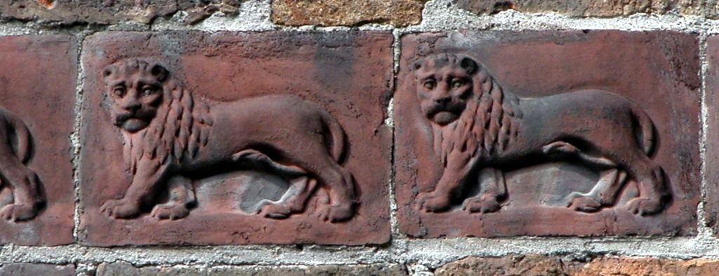 Braunschweig, Germany: Liberei: Detail of the lion frieze.